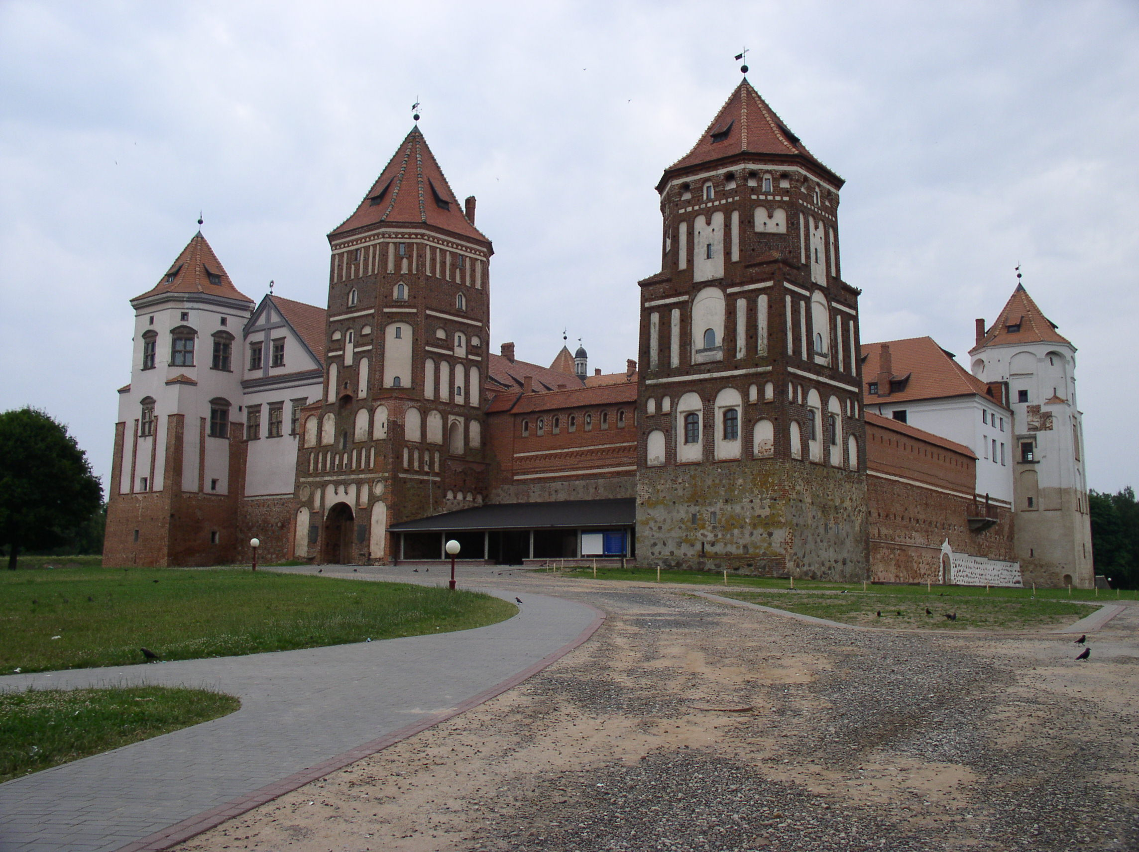 Castle, Mir, Belarus.